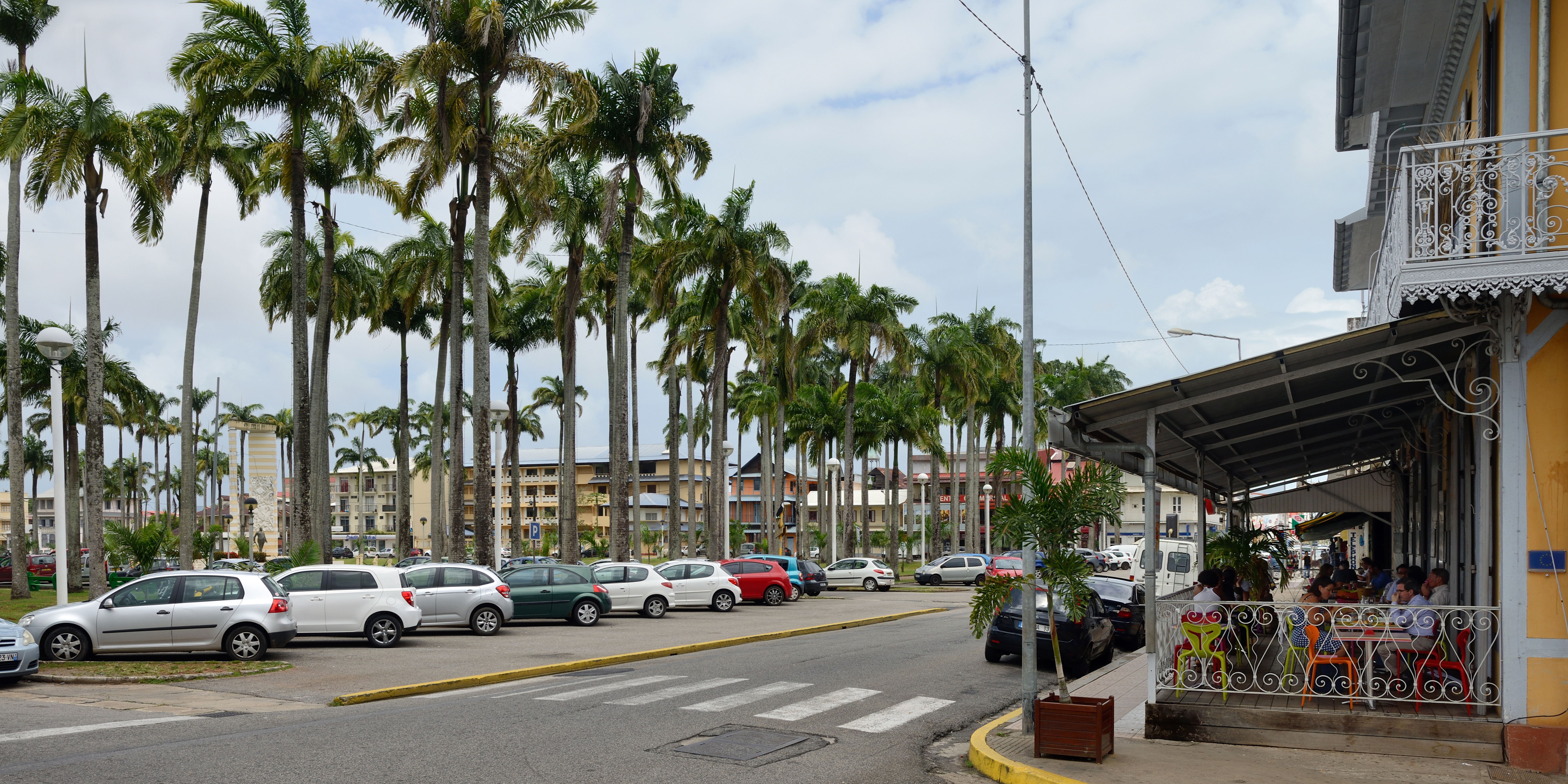 French Guiana: avenue Charles-de-Gaulle, place des palmistes and bar des palmistes.